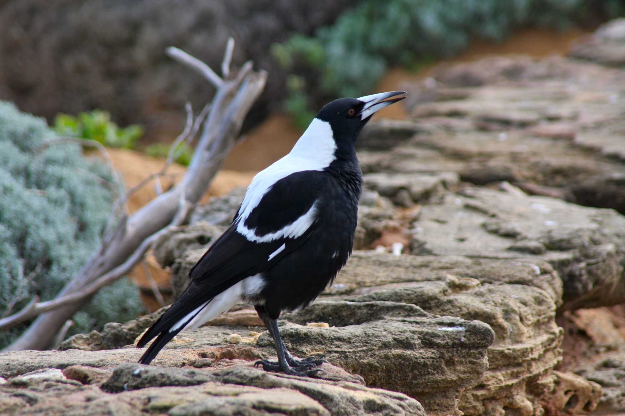 An Australian Magpie in Warrnambool, Victoria, Australia.